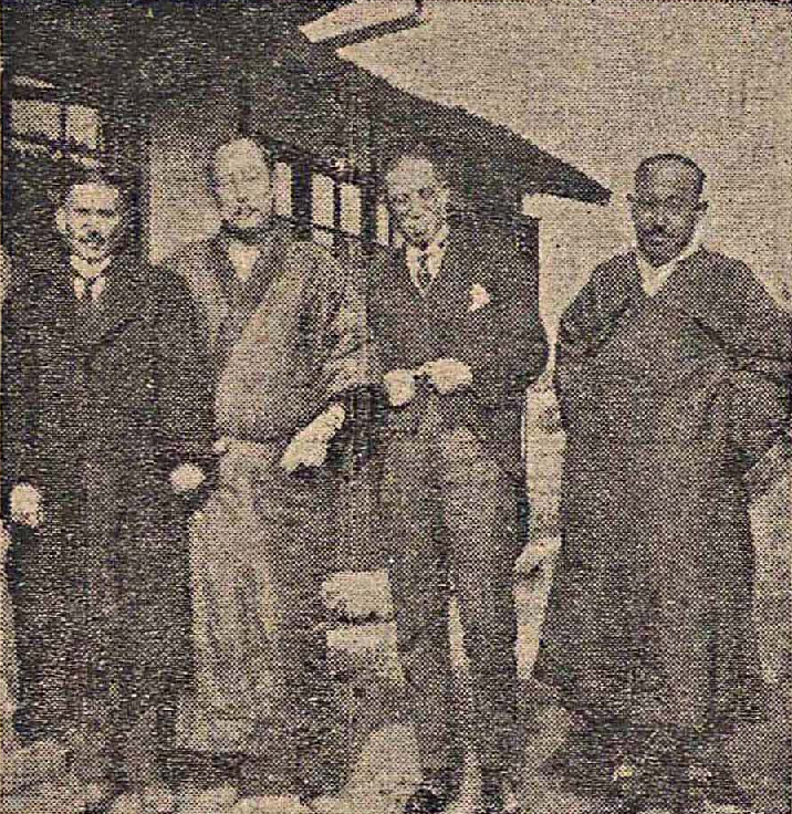 남선 여행객 환영식. 여행객인 한익동, 유만응, 박중양, 하시구치(橋口) 매일신보 경북지국장, 대구 침산에서